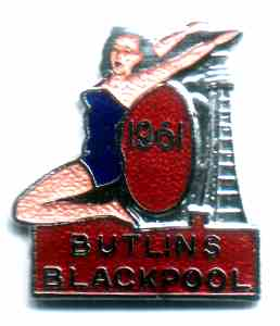 Butlins Blackpool 1961 badge, photographed 9th Oct 2007 by S.C.